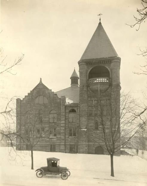 Early photo the Old Gym (Washington & Jefferson College) at Washington & Jefferson College.